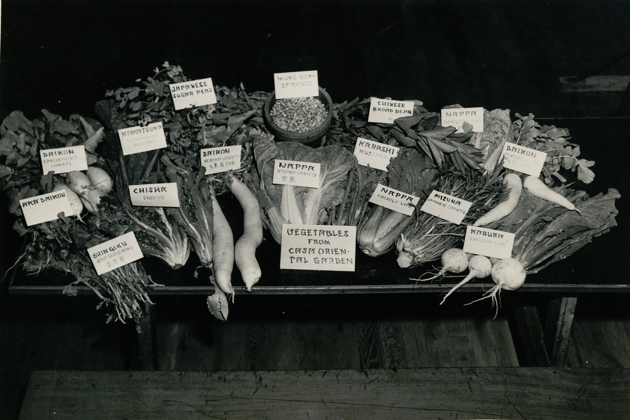 Vegetables grown in the oriental garden at the Civil Affairs Staging Area, Presidio of Monterey